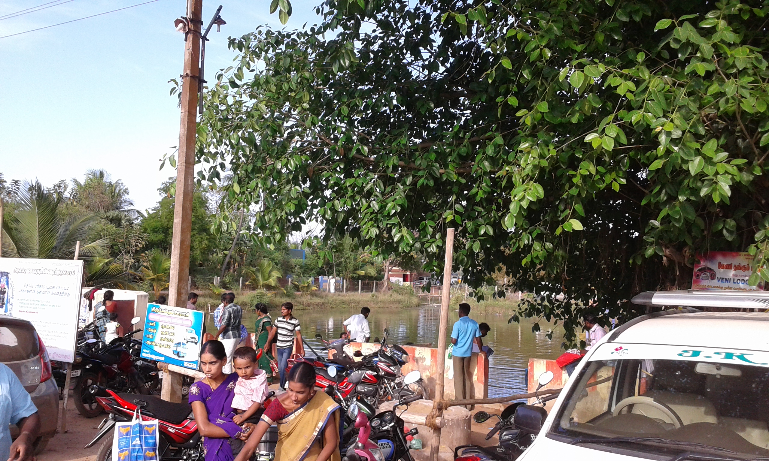 Paampuranathar Temple, Thirupampuram